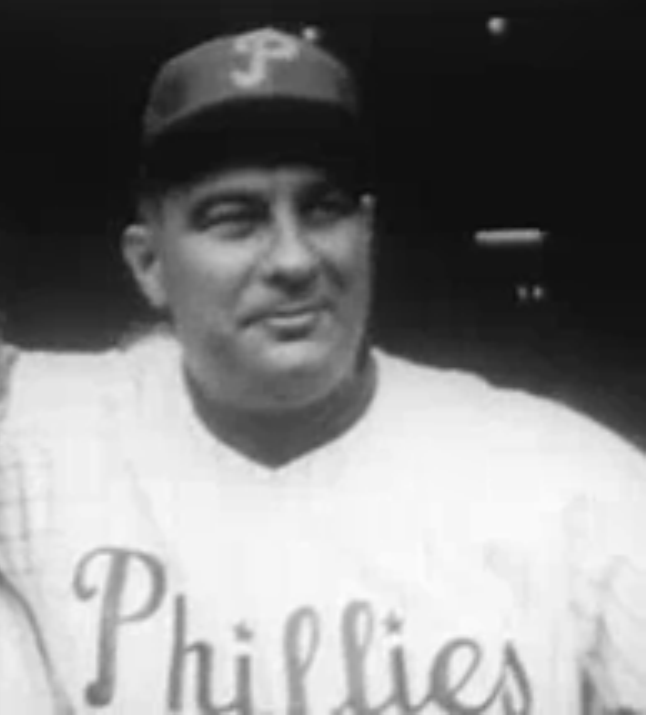 Philadelphia Phillies manager Eddie Sawyer prior to Game 1 of the 1950 World Series at Shibe Park. * Screen capture from the film located at: This movie is part of the collection: Prelinger Archives